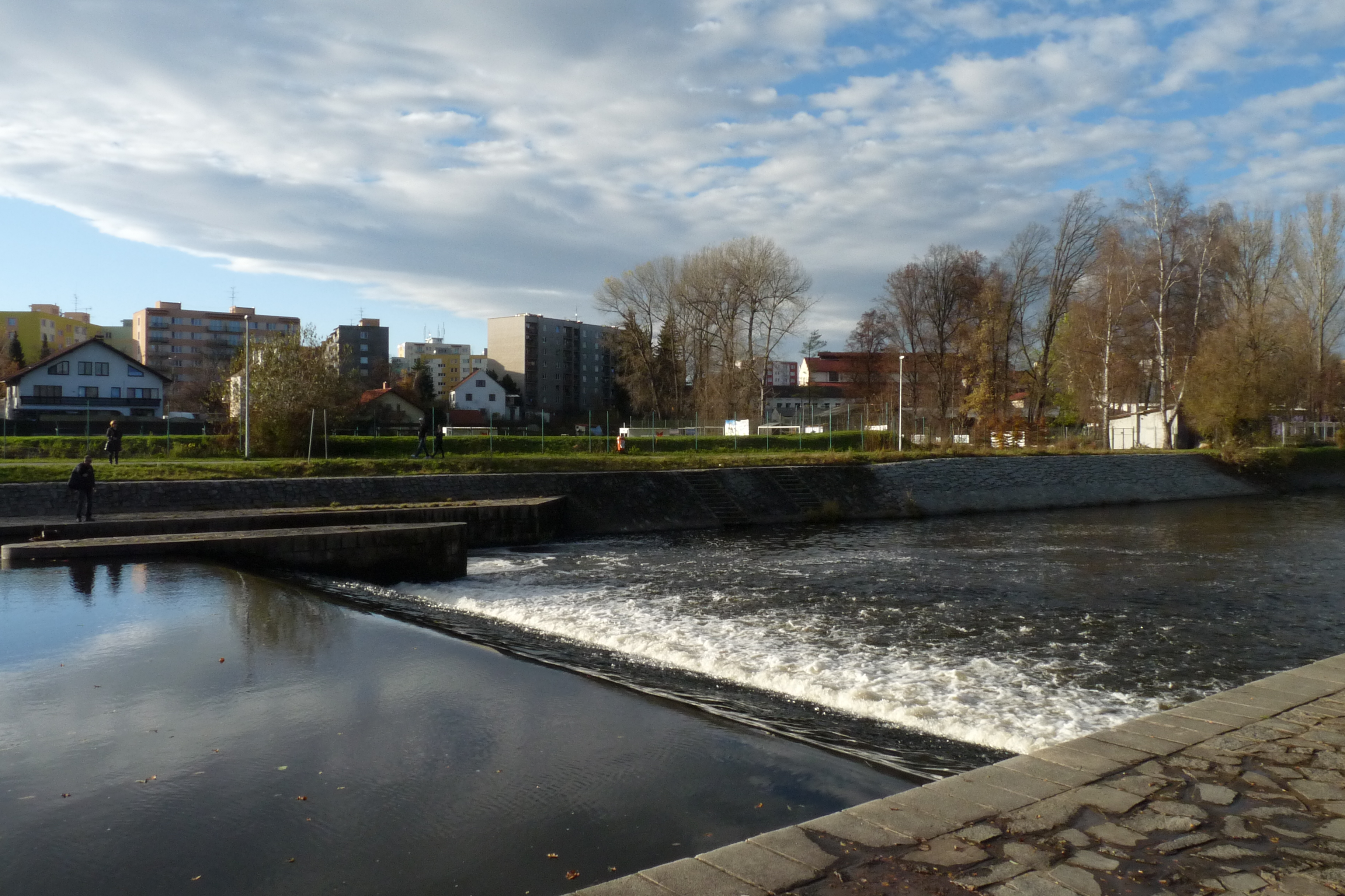 Malý (Small) weir on the Malše river, České Budějovice, Czech Republic